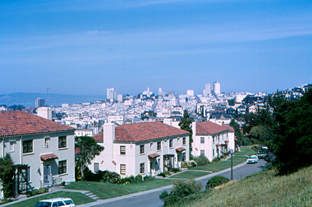 The Nob Hill area of San Francisco, looking east from the Presidio of San Francisco. The Presidio was the oldest military post in continuous service in the U.S., until it was closed in 1994. It was founded by the Spanish army and served the Mexican army, before the U.S. took it over in 1847. Army officers' houses are in the foreground.